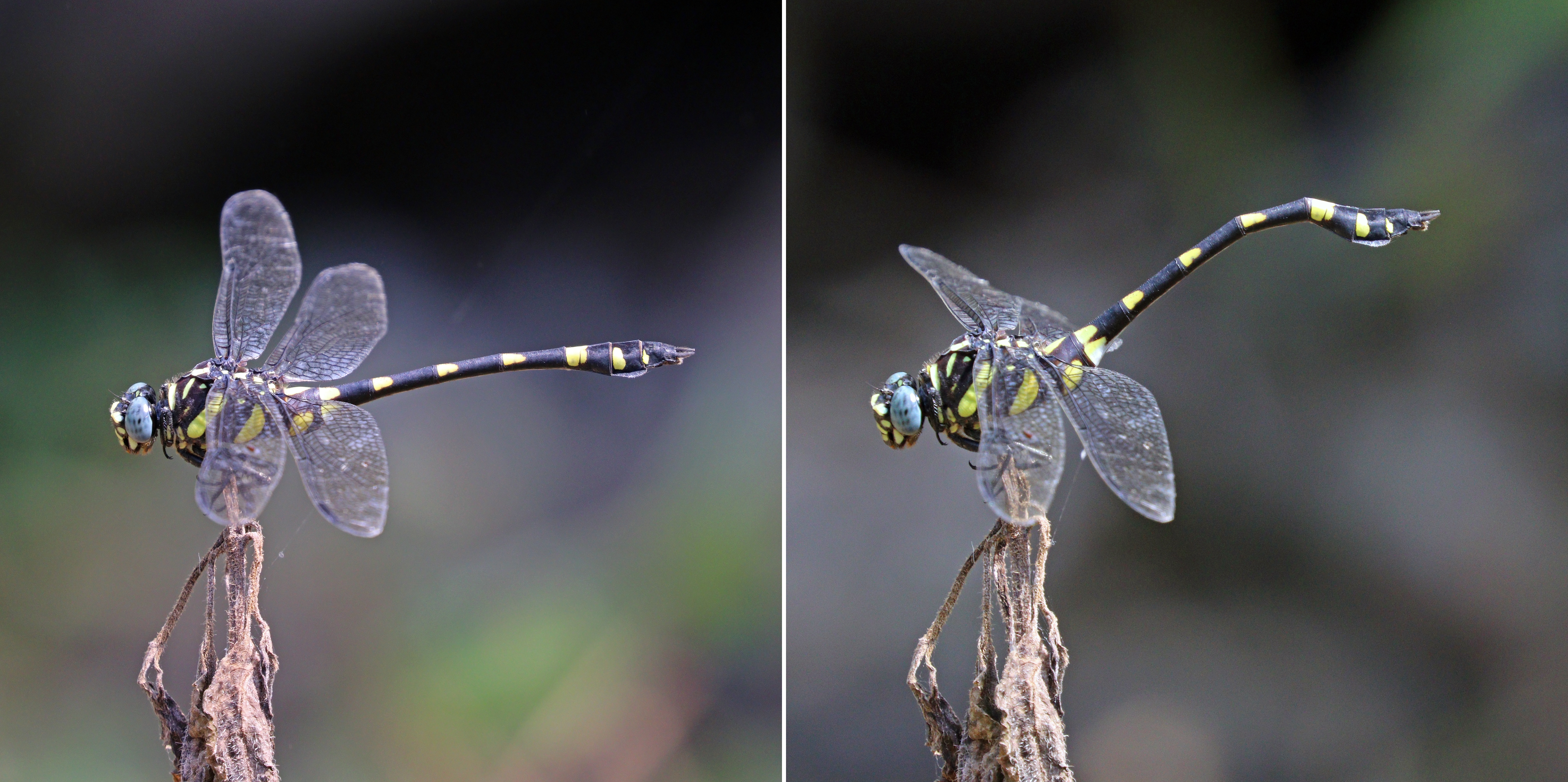 Indian common clubtail (Ictinogomphus rapax) male composite, Near Kumarkom, Kerala, India